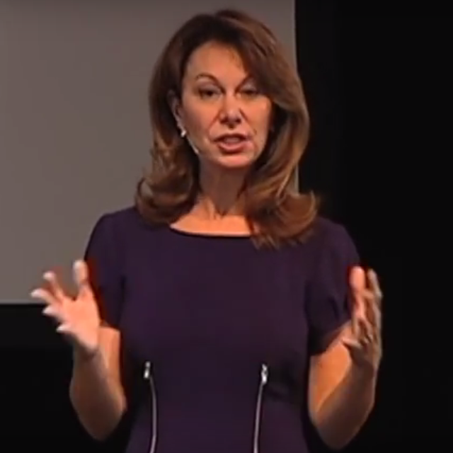 In 1997, Julie Young, President and CEO of Florida Virtual School (FLVS), launched the first statewide, internet-based public high school in the U.S.